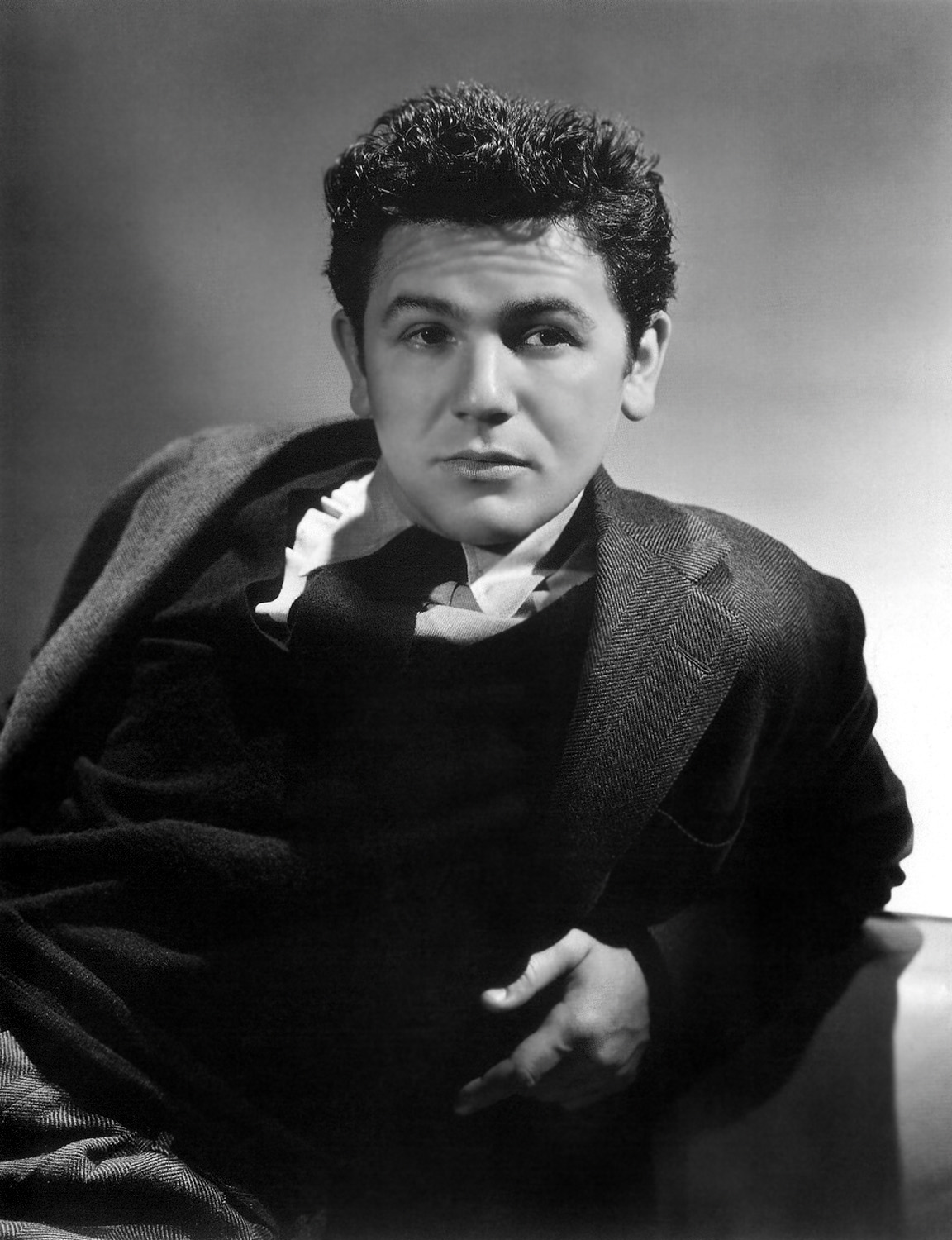 publicity still of actor John Garfield Copyright details Additional source information: This is a publicity photo taken to promote a film actor. As stated by film production expert Eve Light Honthaner in The Complete Film Production Handbook, (Focal Press, 2001 p. 211.): "Publicity photos (star headshots) have traditionally not been copyrighted. Since they are disseminated to the public, they are generally considered public domain, and therefore clearance by the studio that produced them is not necessary." Nancy Wolff, includes a similar explanation: "There is a vast body of photographs, including but not limited to publicity stills, that have no notice as to who may have created them." (The Professional Photographer's Legal Handbook By Nancy E. Wolff, Allworth Communications, 2007, p. 55.) Film industry author Gerald Mast, in Film Study and the Copyright Law (1989) p. 87, writes: "According to the old copyright act, such production stills were not automatically copyrighted as part of the film and required separate copyrights as photographic stills. The new copyright act similarly excludes the production still from automatic copyright but gives the film's copyright owner a five-year period in which to copyright the stills. Most studios have never bothered to copyright these stills because they were happy to see them pass into the public domain, to be used by as many people in as many publications as possible." Kristin Thompson, committee chairperson of the Society for Cinema and Media Studies writes in the conclusion of a 1993 conference with cinema scholars and editors, that they "expressed the opinion that it is not necessary for authors to request permission to reproduce frame enlargements. . . [and] some trade presses that publish educational and scholarly film books also take the position that permission is not necessary for reproducing frame enlargements and publicity photographs."[1]